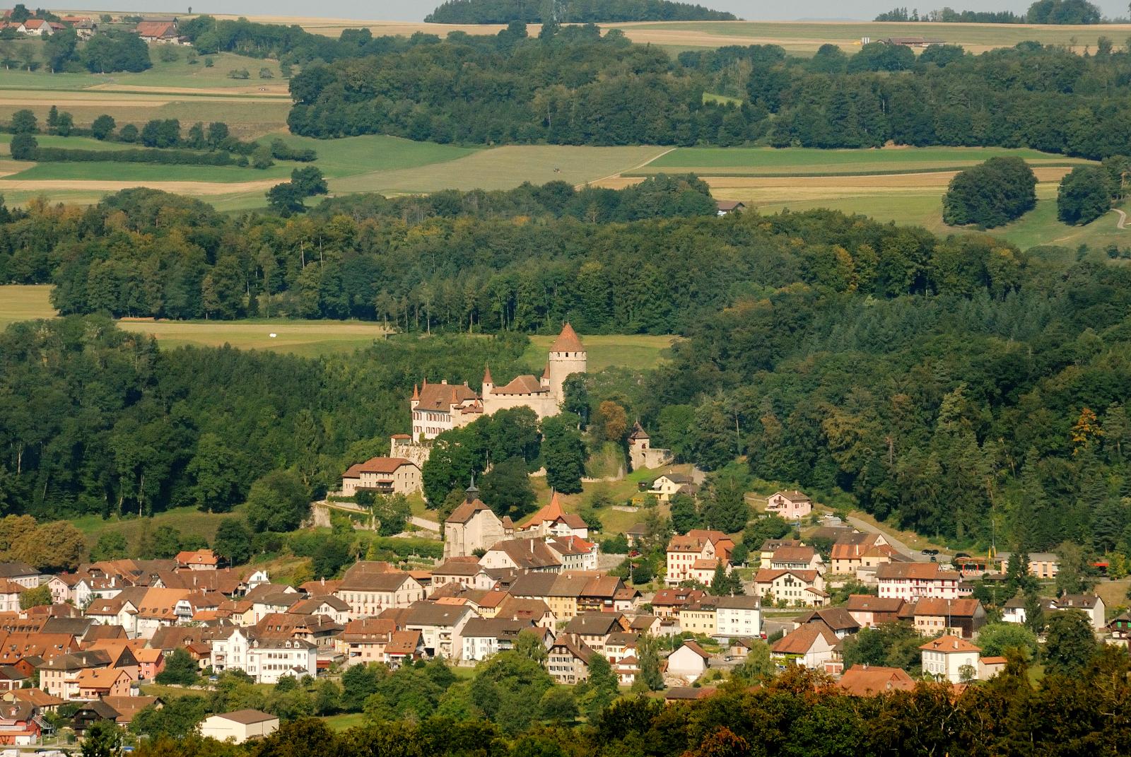 Lucens castel with downtown